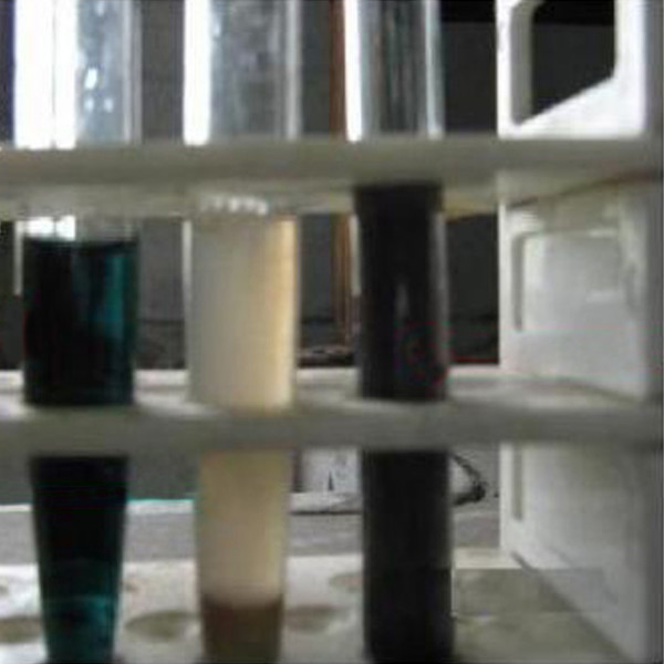 Qualitative assay of homogentisic acid: To 0.5 ml of sample few drops of 10% ammonia was added followed by addition of 3% silver nitrate solution. Development of greenish black color signified presence of substantial amount of homogentisic acid. The test tube in the centre is the control one.